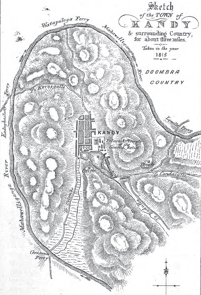 Sketch of the town of Kandy and surrounding country, for about three miles in the year of 1815.